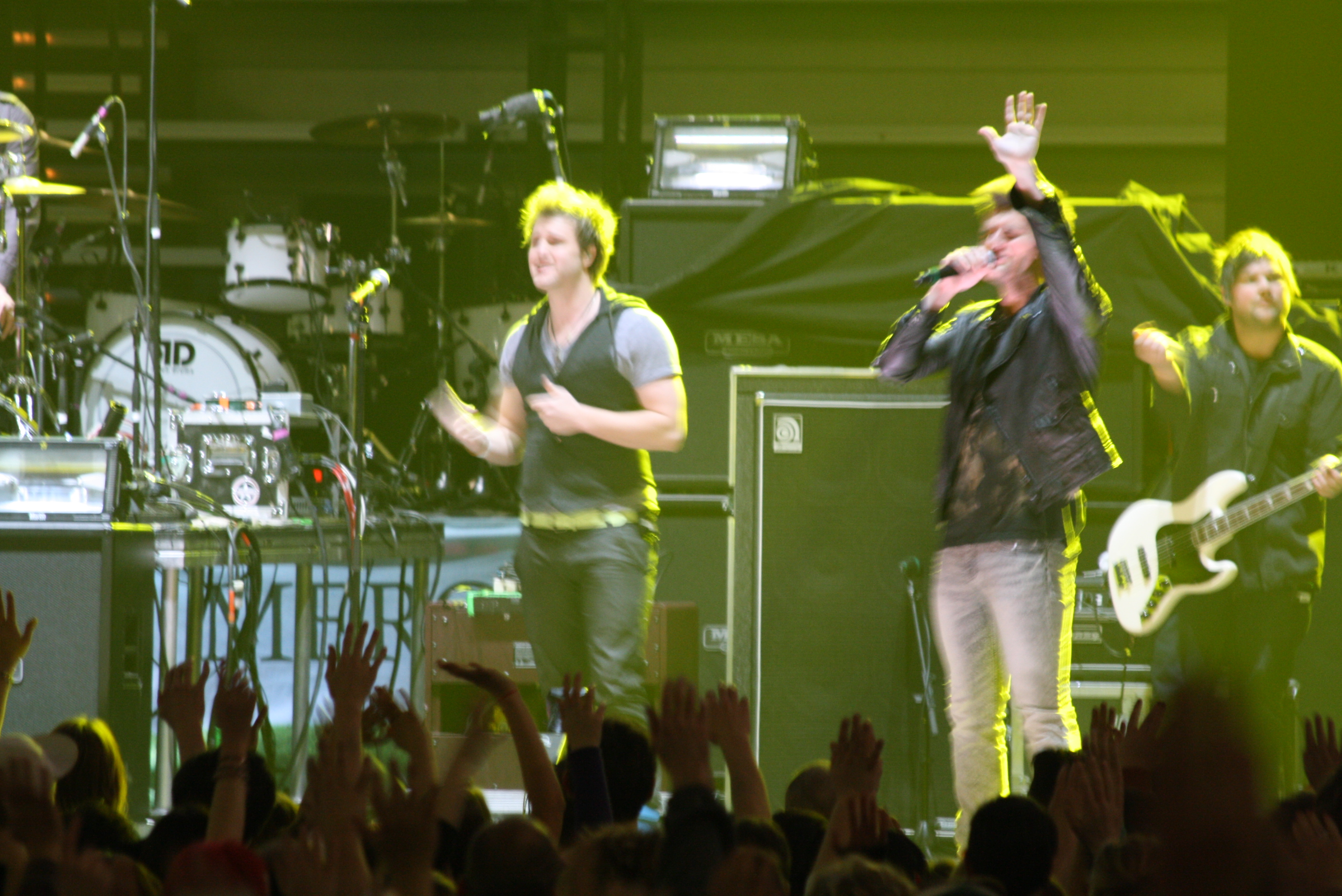 Two members of the Christian boy band Anthem Lights at the Rock & Worship Roadshow national tour at the Resch Center in Green Bay, Wisconsin.